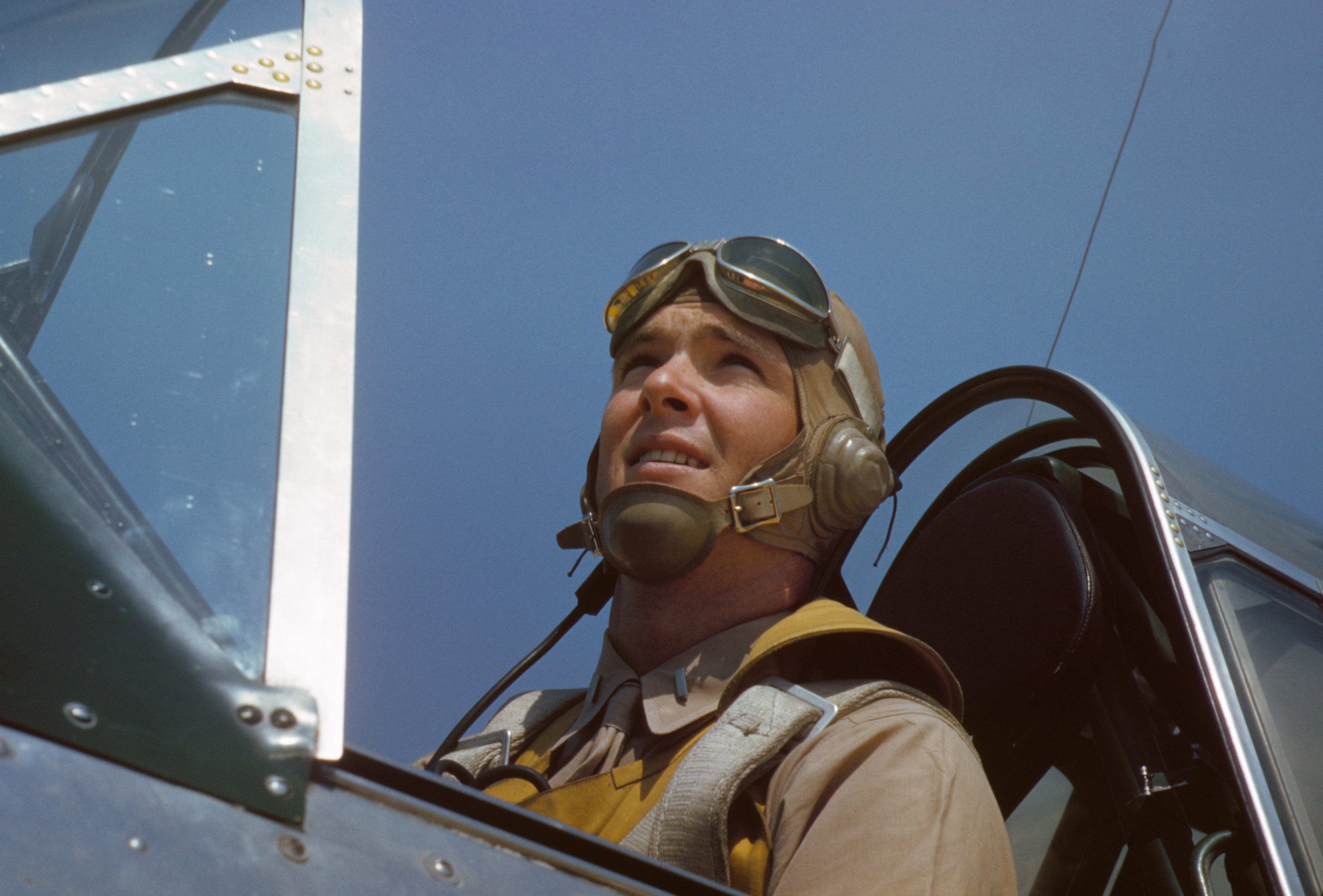 Marine Lieutenant, glider pilot in training at Page Field, Parris Island, SC.